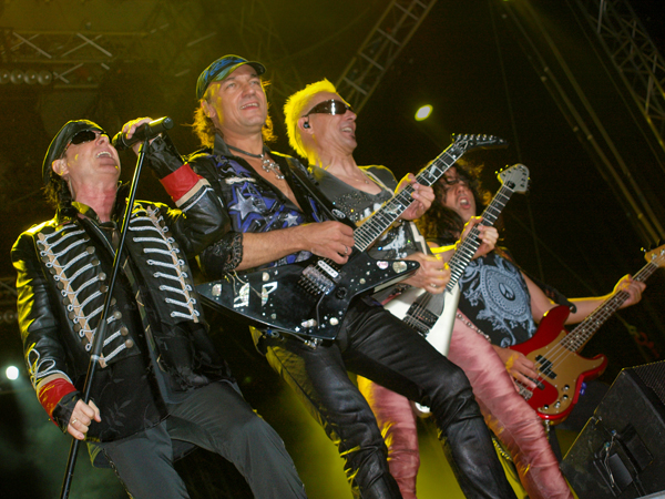 Picture from Kavarna Rock Fest 2009